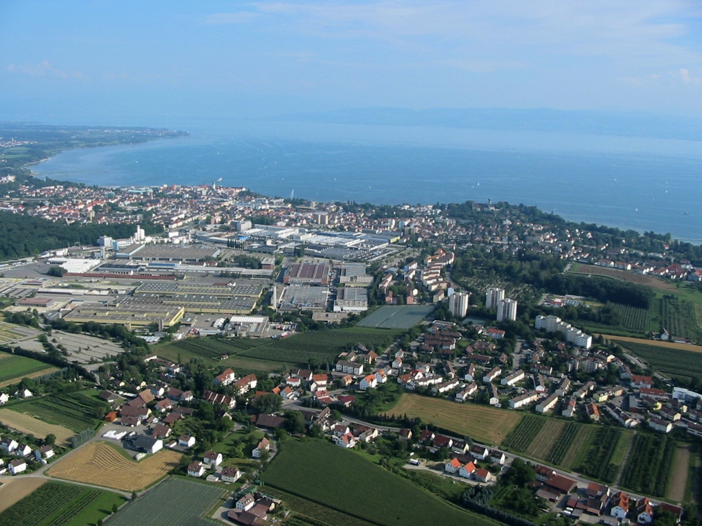 Germany, Baden-Württemberg, impressions of a flight with airship D-LZZR